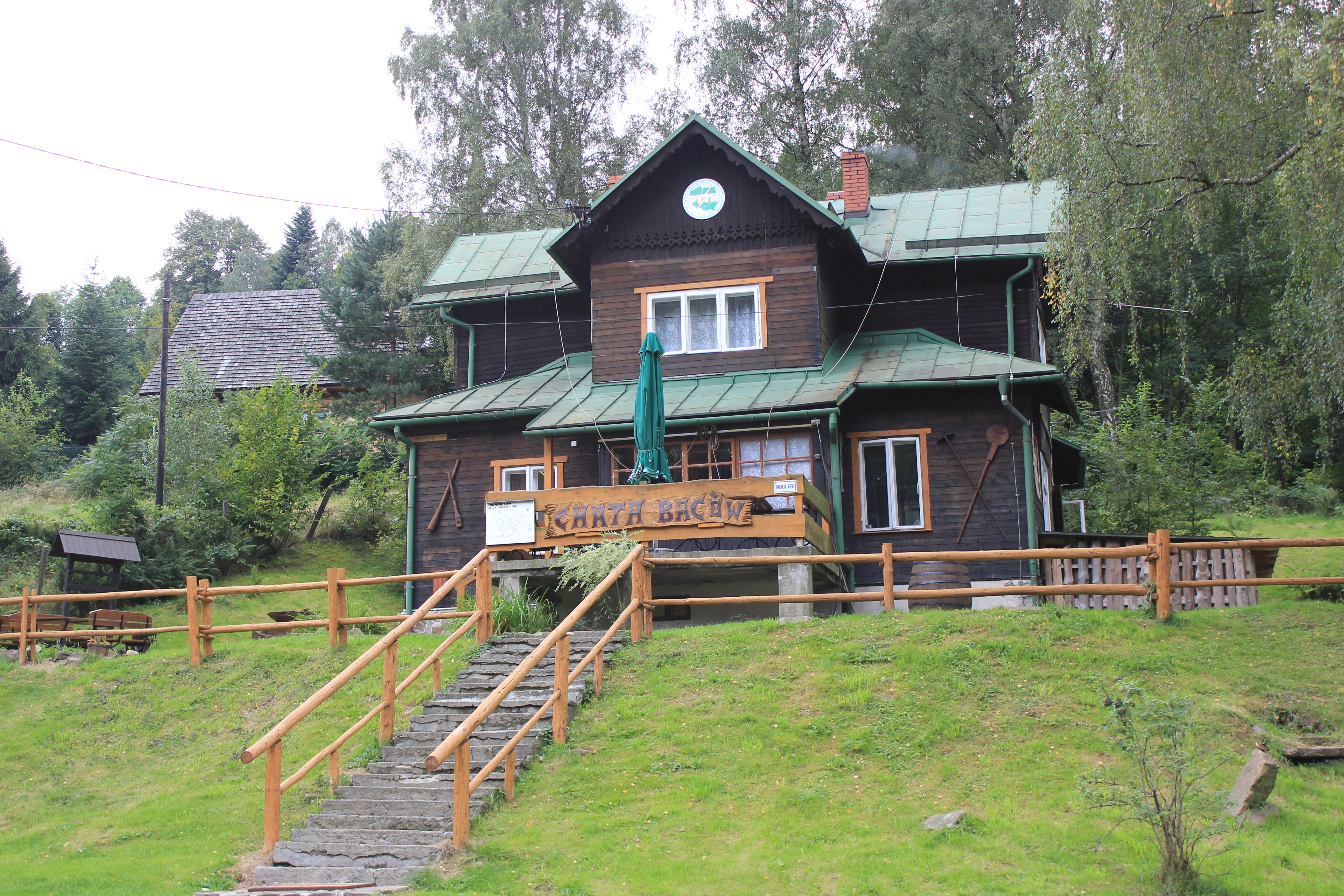 Korbielów - Chata Baców mountain hut